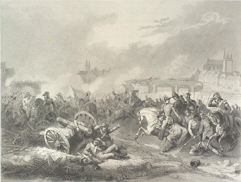 The battle of Montereau, 18 February 1814. Original Work: «Bataille de Montereau, 18 février 1814» by Langlois, Jean-Charles. Engraving.